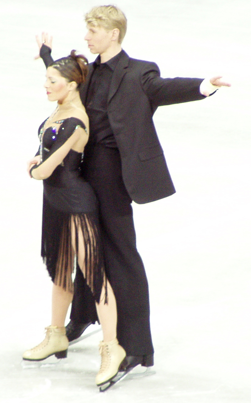 Isabelle Delobel and Olivier Schoenfelder at the compulsory dance at the world championships 2004 in Dortmund